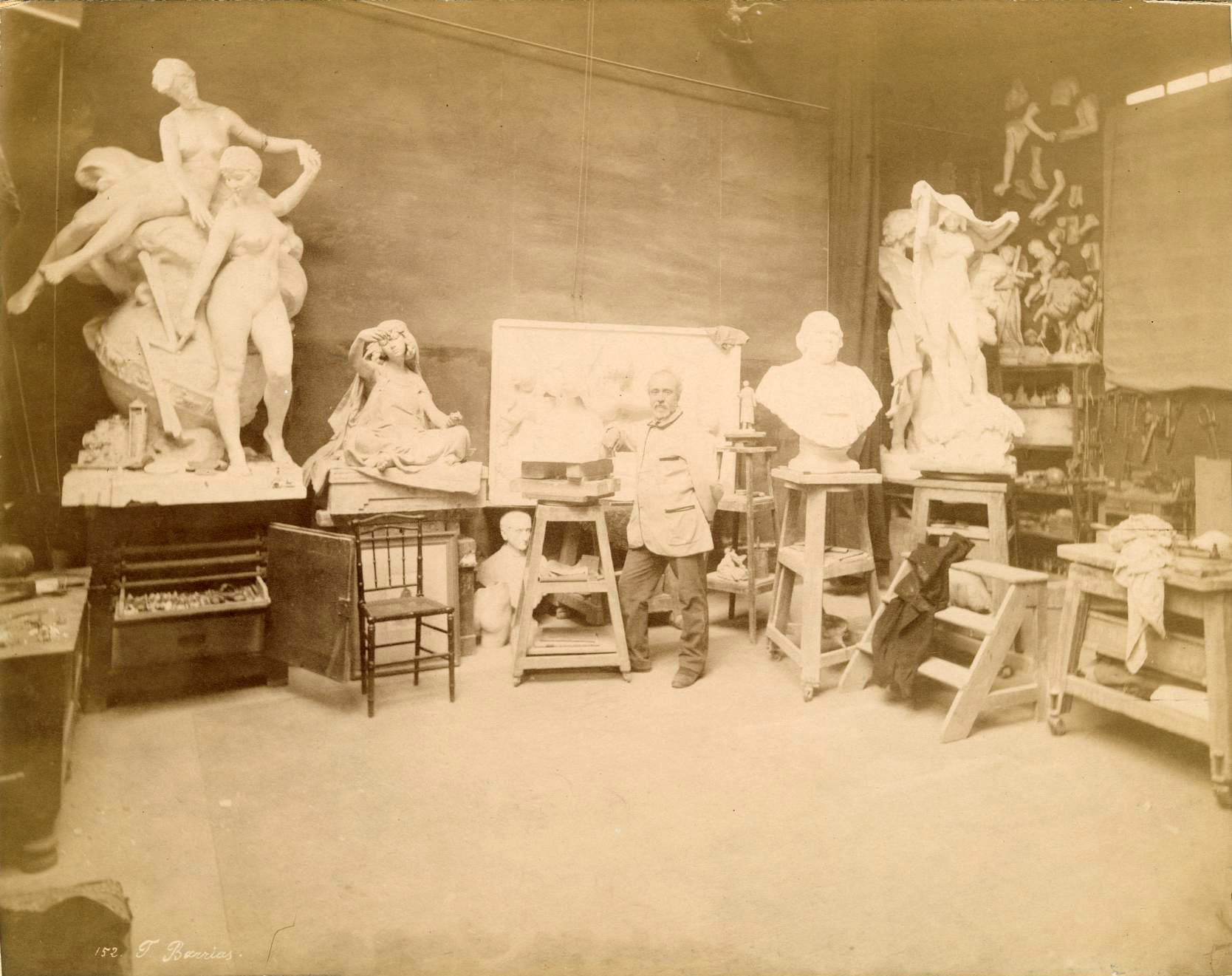 Louis-Ernest Barrias in his studio